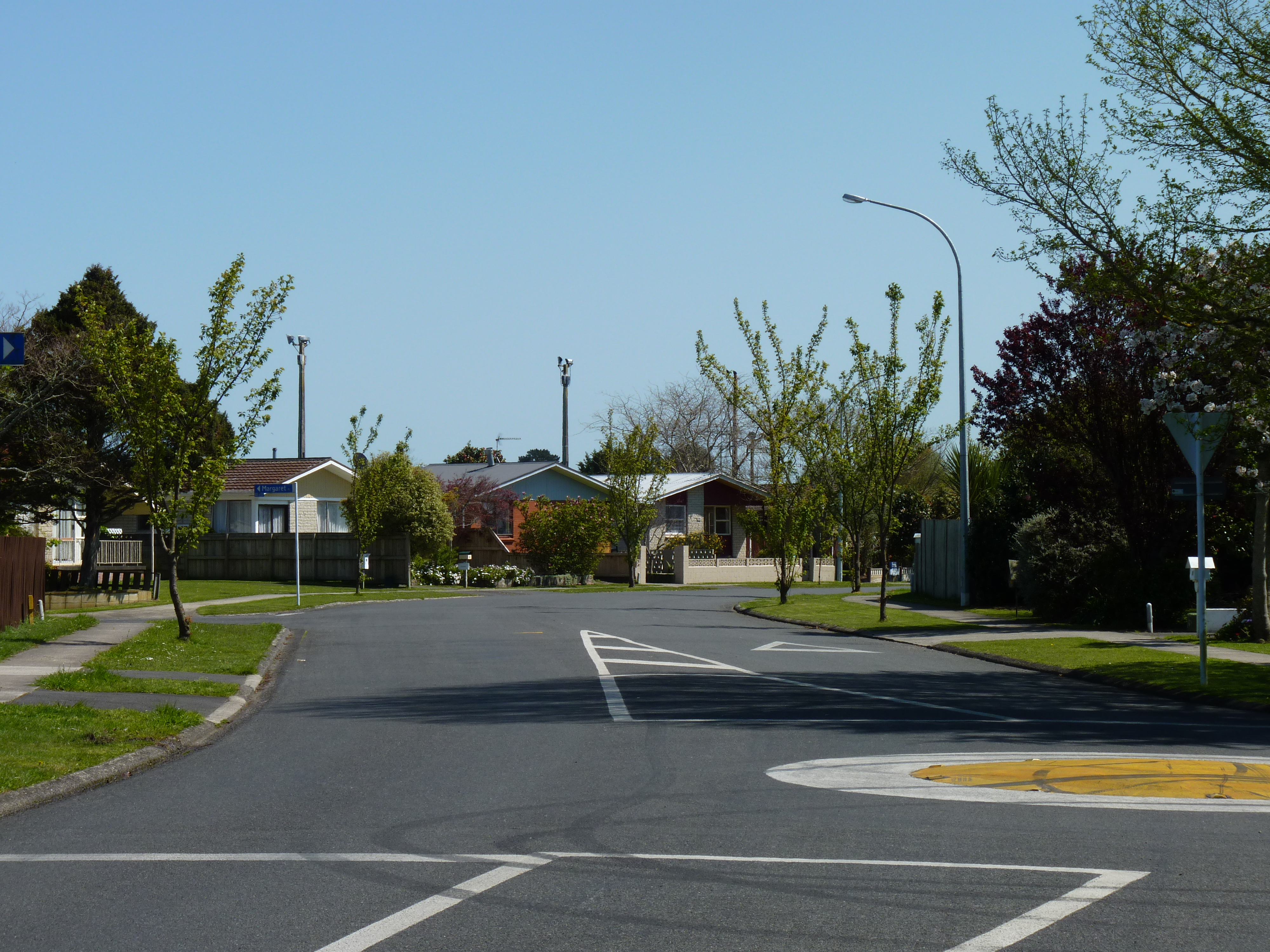 Deanwell, southwest Hamillton.